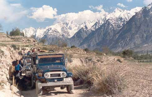 This is the road side of Chorbat Valley